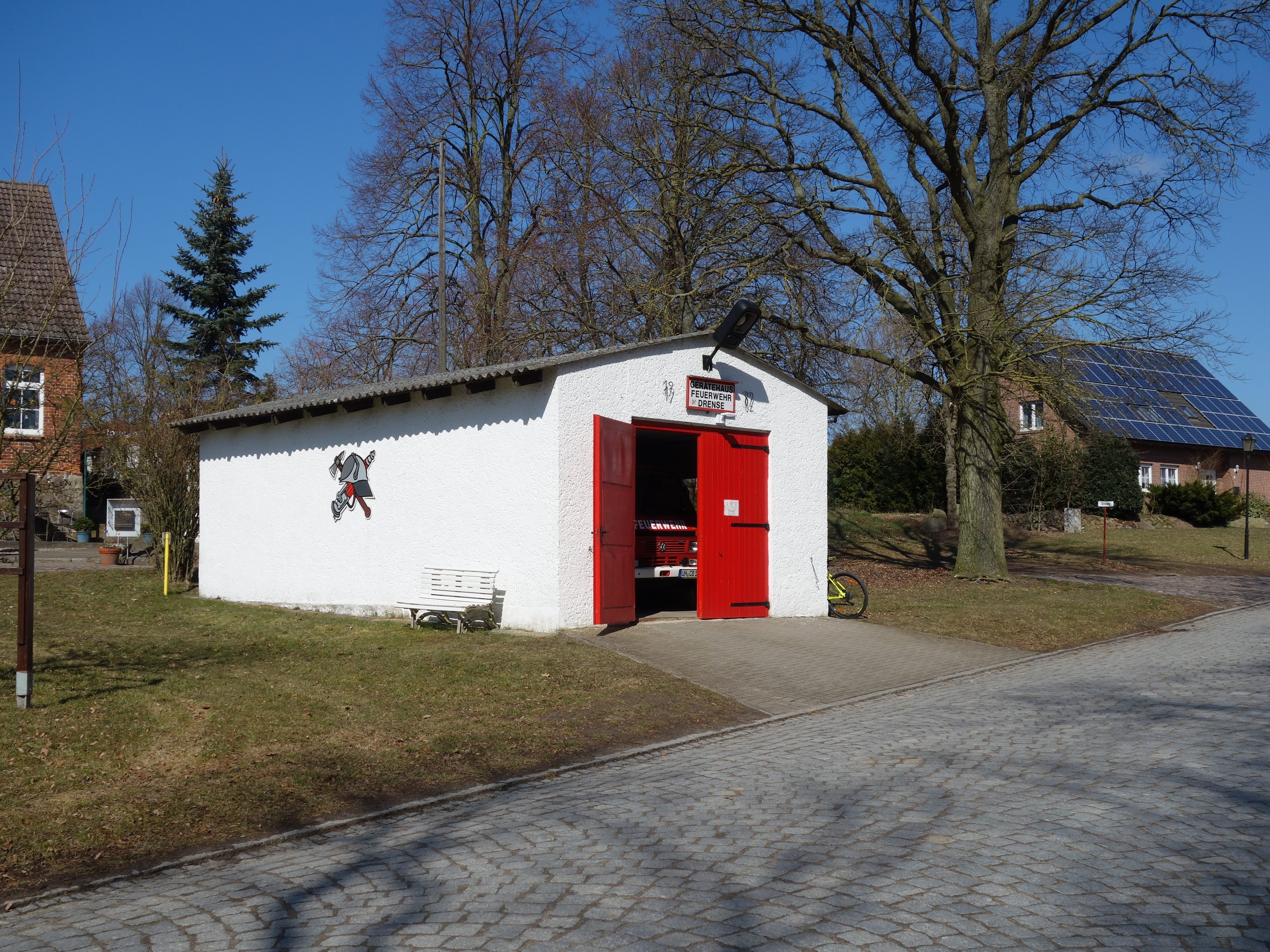 South-western view of the fire station in Drense , Grünow municipality , Uckermark district, Brandenburg state, Germany